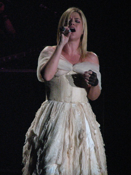 Kelly Clarkson, AIS Arena, Canberra